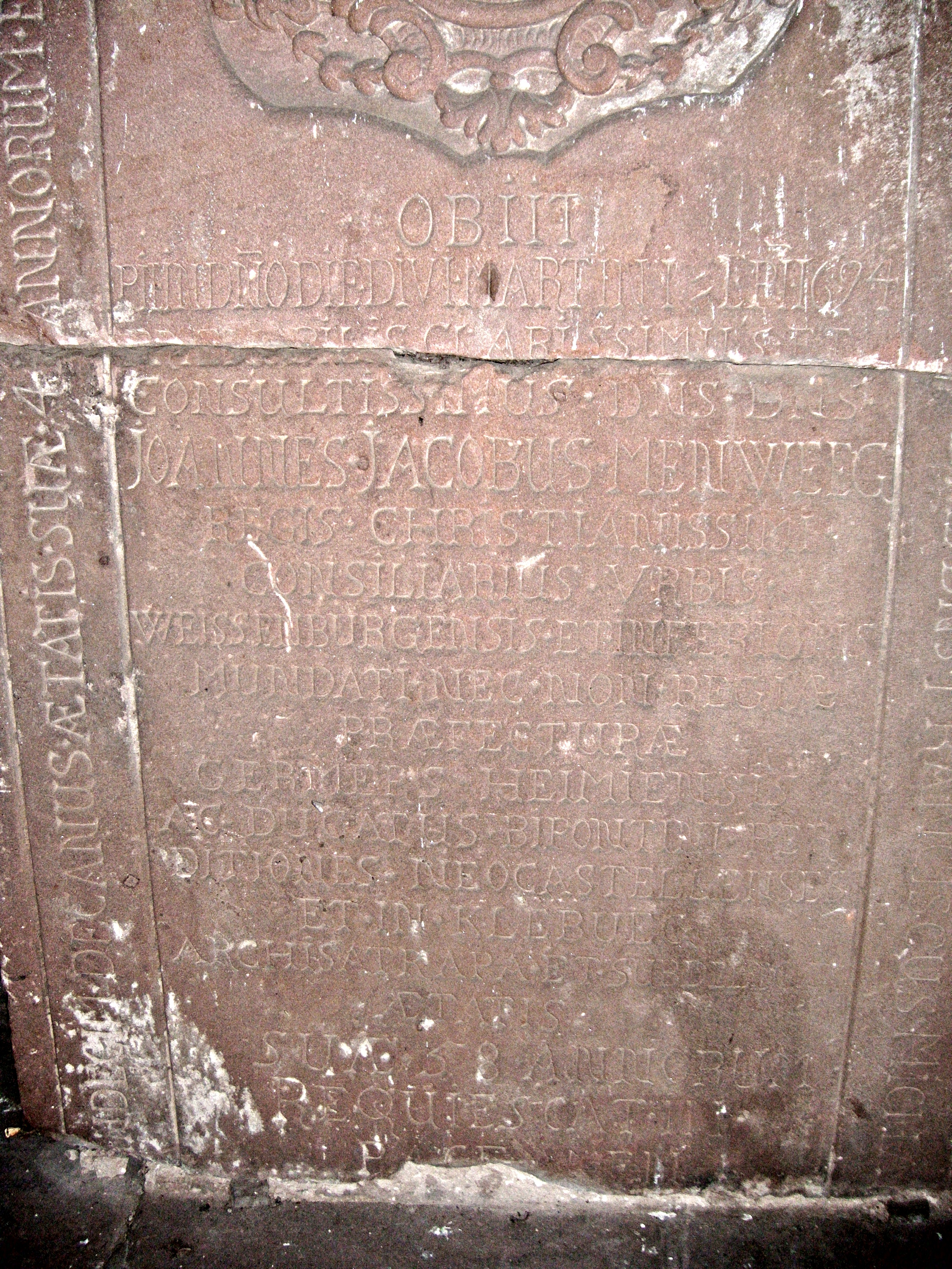 Grabplatte Johann Jakob Menweeg, (1636-1694), französischer Präfekt, in der Abteikirche Wissembourg